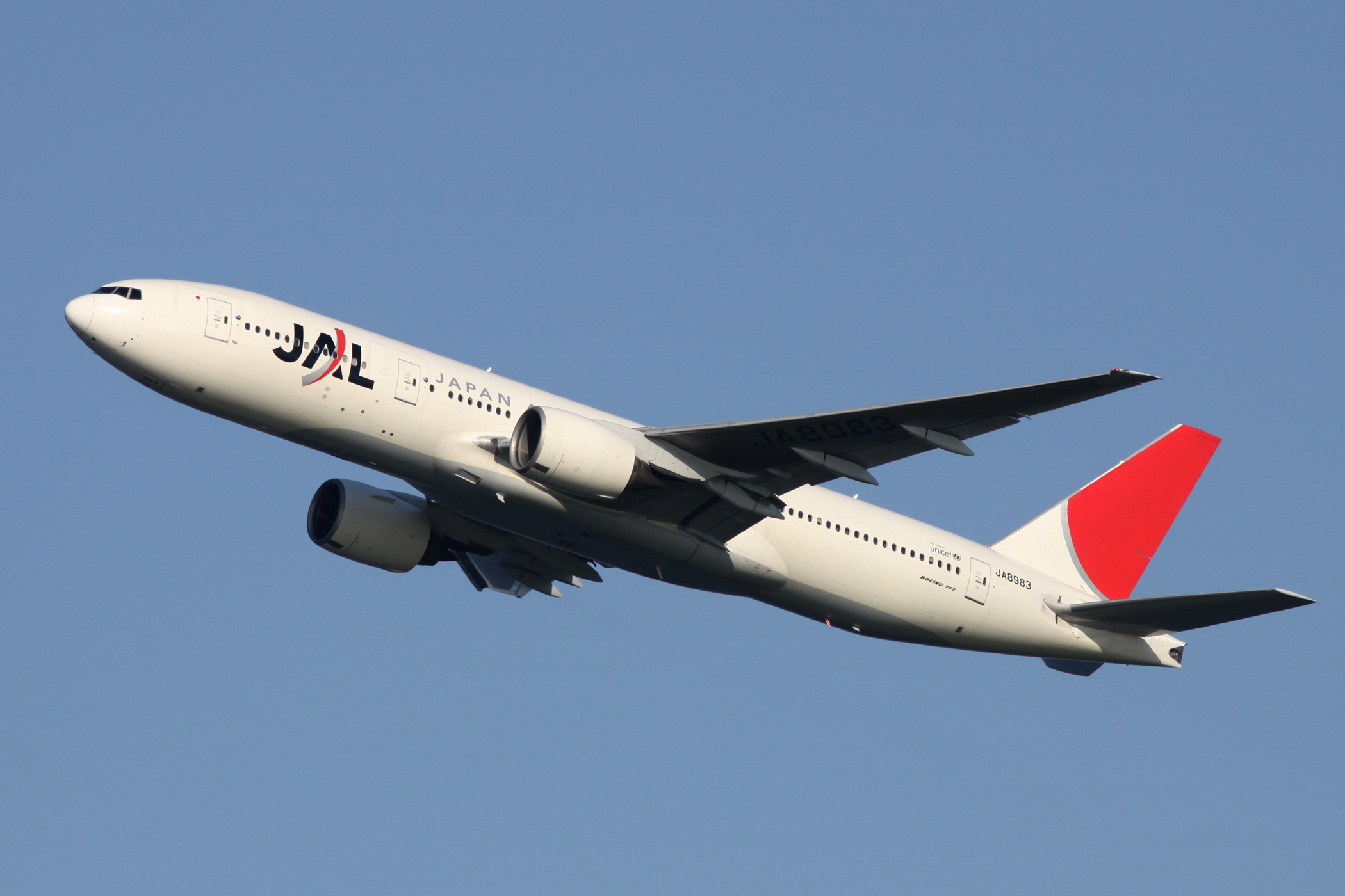 Take-off from Runway 34R, Tokyo International Airport (Boeing B777-246)